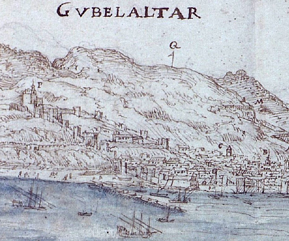 Cropped version of original, focusing on old city